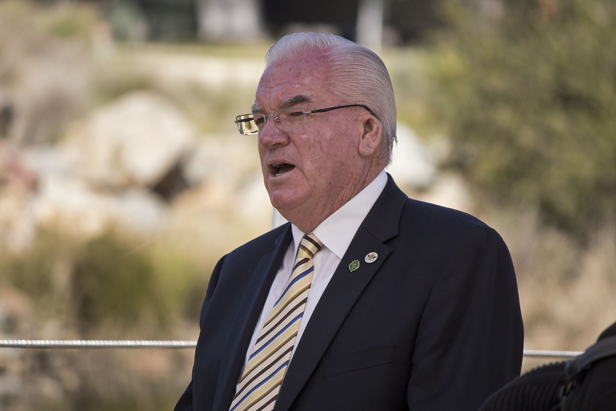 Mayor of the City of Wagga Wagga, Kerry Pascoe at the 2012 Lake to Lagoon presentations.